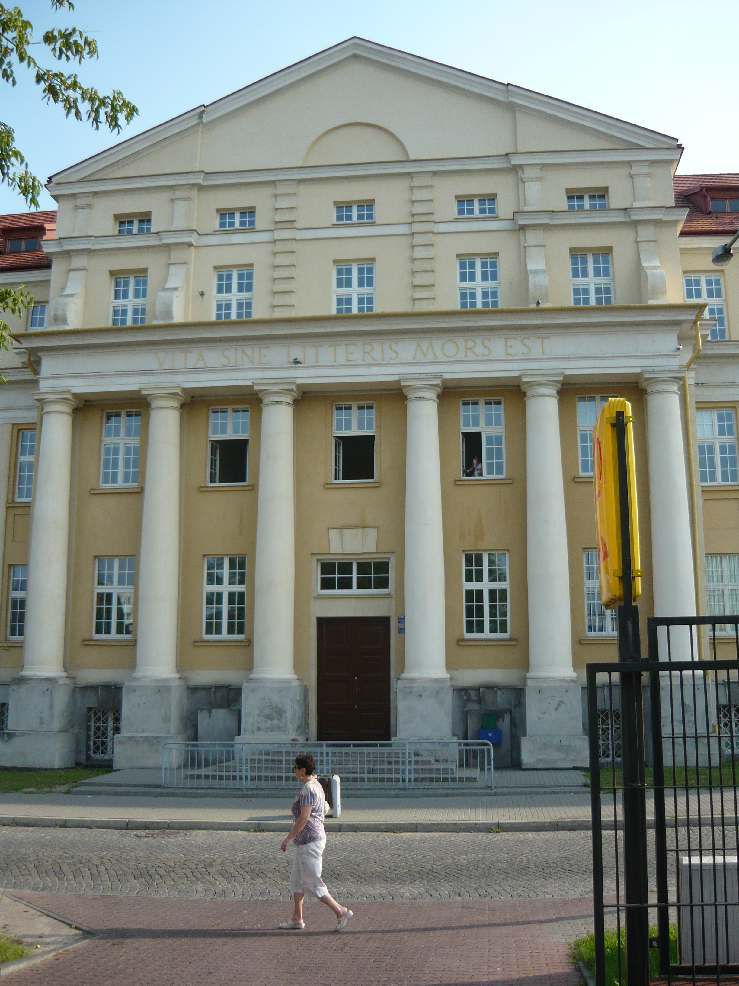 Enter door of the Catholic's Schools Complex named of Jan Długosz in Włocławek.